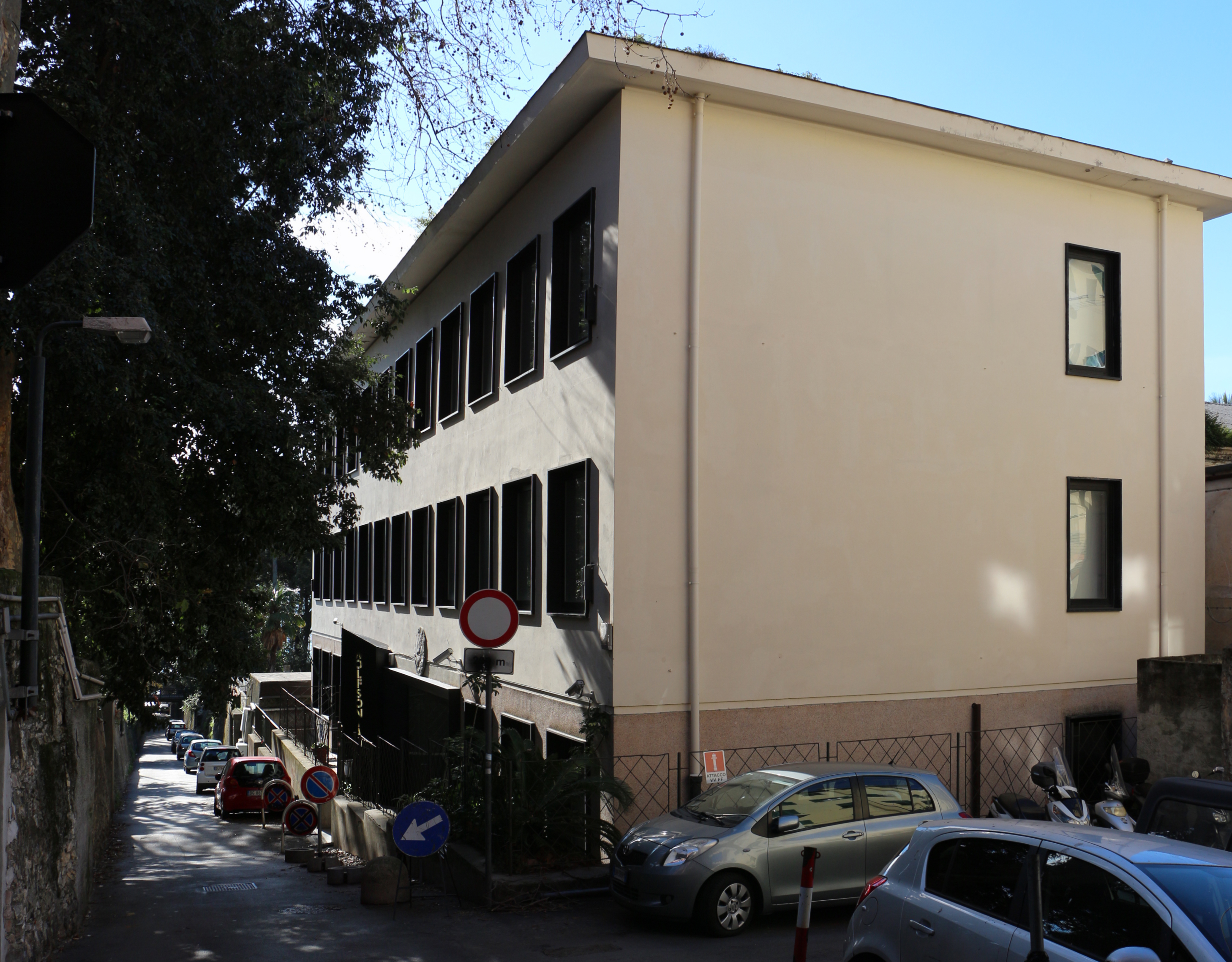 Wolfsoniana